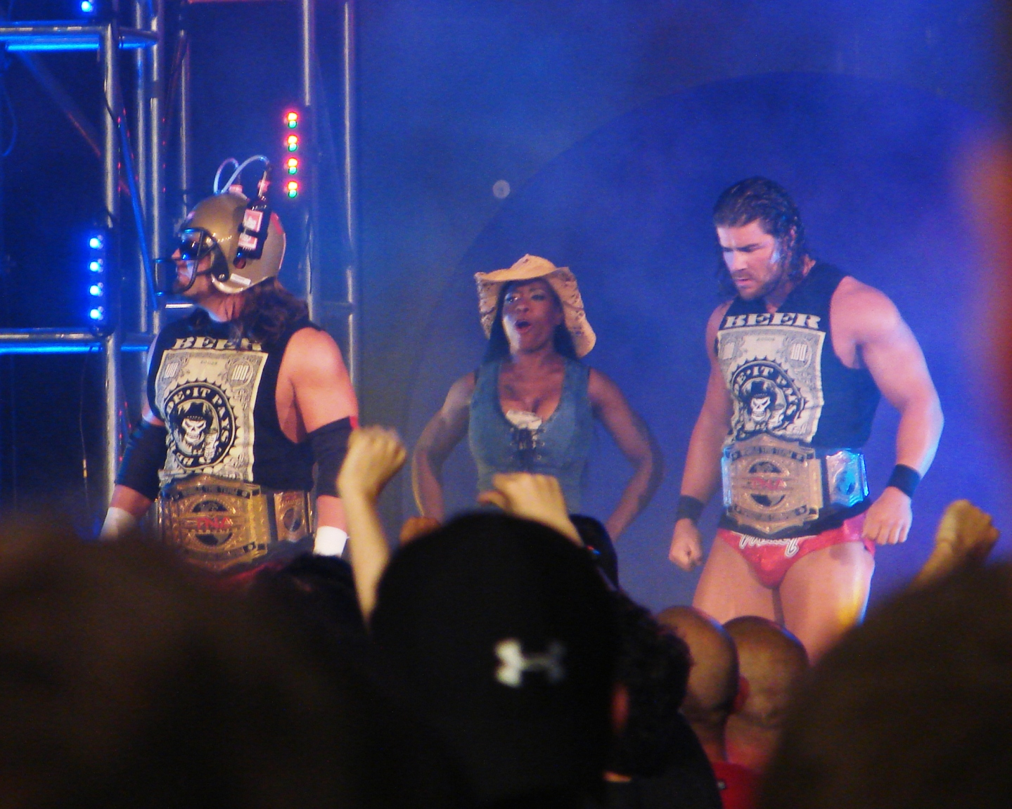 James Storm, Jacqueline, and Robert Roode at TNA Bound for Glory IV. Sears Centre; Hoffman Estates, Illinois. Taken by myself, cropped and brightened.